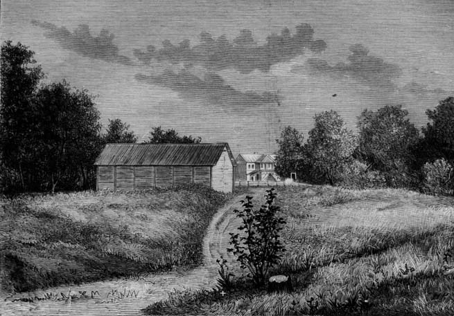 A drawing of Pushkin's duel place painted by V. Ja. Reingard